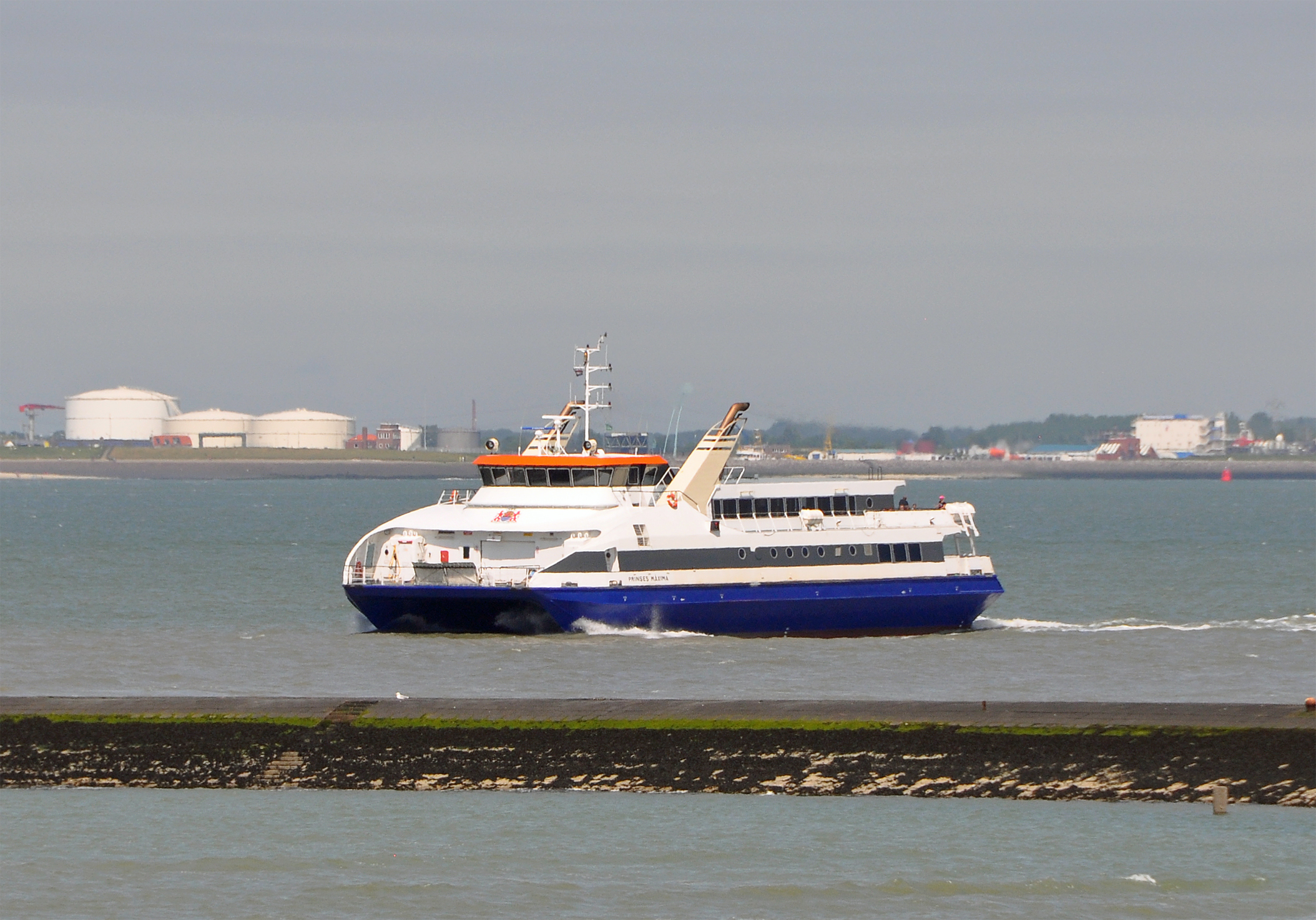 Ferry Prinses Máxima on the Western Scheldt near Breskens (the Netherlands)